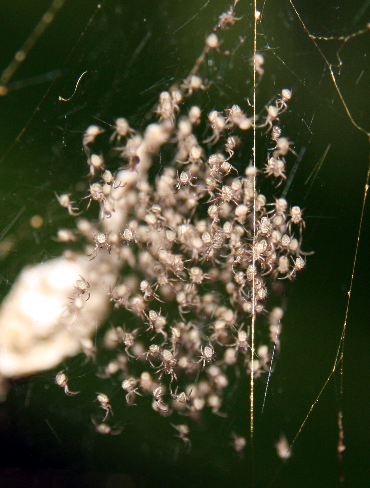 "Gasteracantha mammosa" (G. cancriformis?) spiderlings next to their egg capsule. The size of each spiderling is 1 -2 mm. Photographed on Hawai'i Big Island.